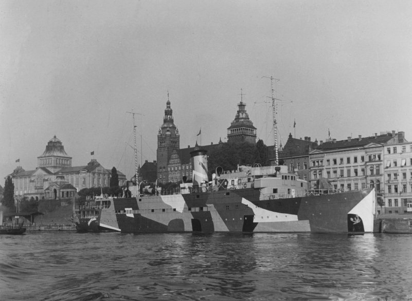 German Minelayer (ex passenger vessel Preußen) in the Port of Szczecin about 1939/41